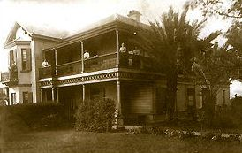 Image title:"Garth House". Description: "Garth House", the boarding school of Somerville House, from 1903 to 1920.